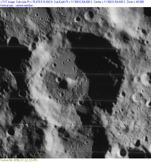 Crater Pentland. Detail from Lunar Orbiter IV-094H. High resolution scans from the USGS Lunar Orbiter Digitization Project remapped to a north-up aerial view by LTVT.